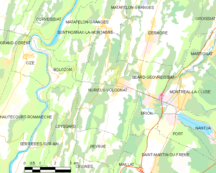 Map of French commune: Nurieux-Volognat Map commune FR insee code 01267.png